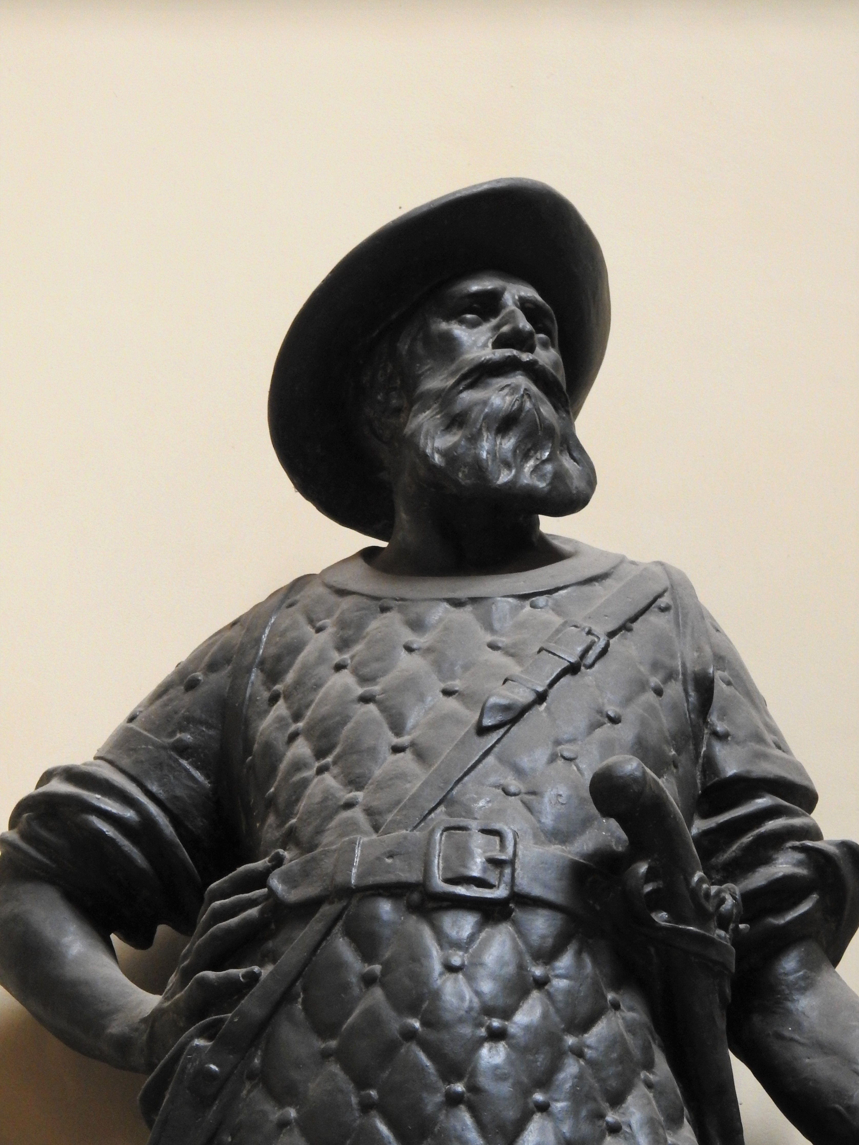 The Museu Paulista of the University of São Paulo (commonly known in São Paulo and all Brazil as Museu do Ipiranga) is a Brazilian history museum located near where Emperor Pedro I proclaimed the Brazilian independence on the banks of Ipiranga brook in the Southeast region of the city of São Paulo, then the "Caminho do Mar," or road to the seashore. It contains a huge collection of furniture, documents and historically relevant artwork, especially relating to the Brazilian Empire era.